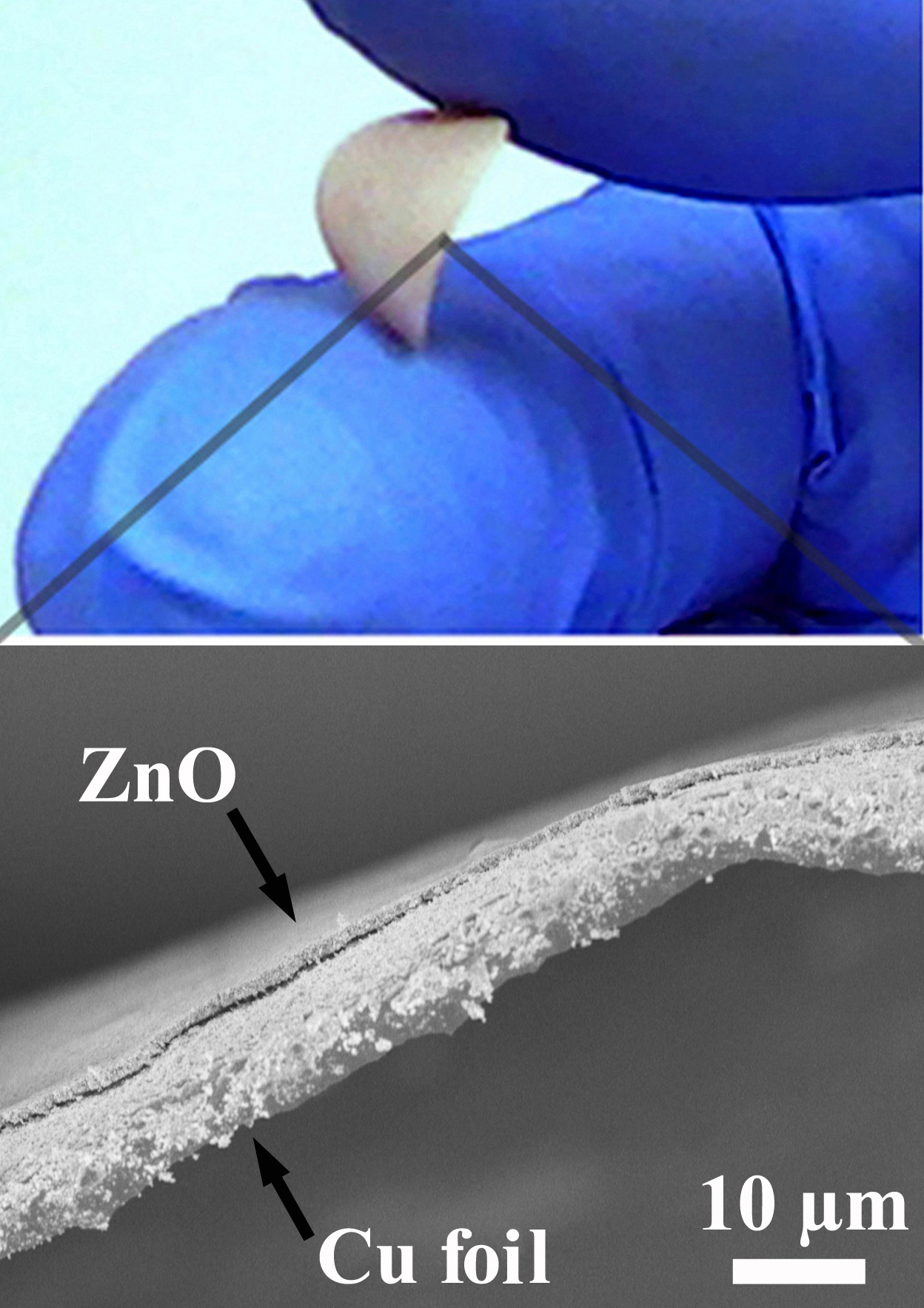 ZnO Anode